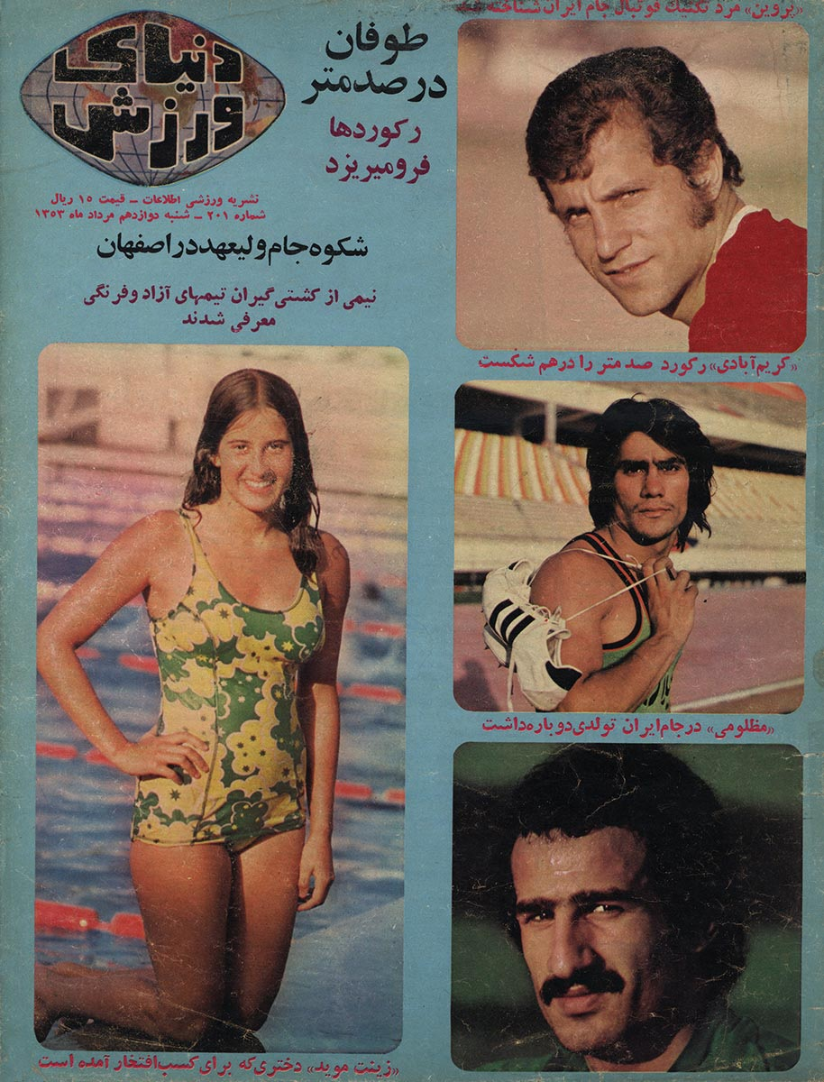 Donyaye Varzesh Magazine cover, Issue 201, 3 August 1974